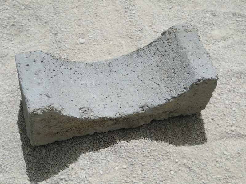 Precast Concrete Segments for Street Gutter